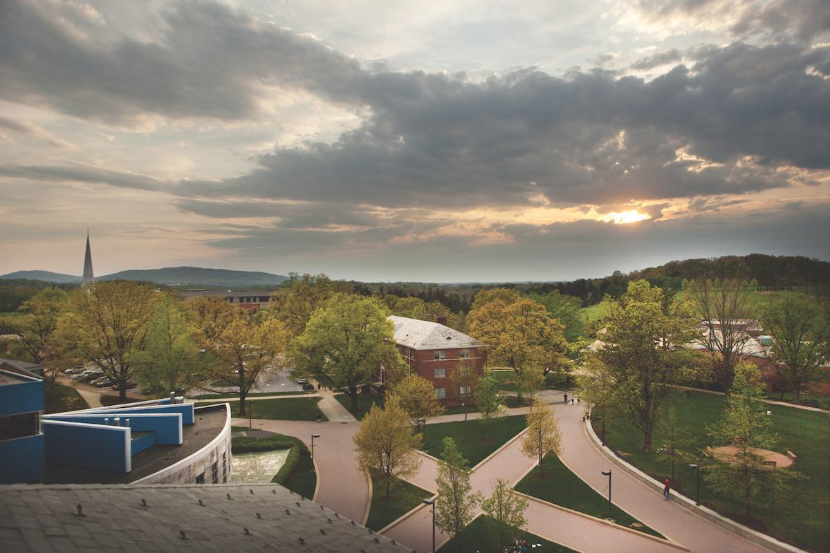 Picture taken from above Kline Hall.